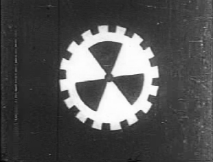 Symbol of the Proletarian Film League of Japan from "Yamasenso"